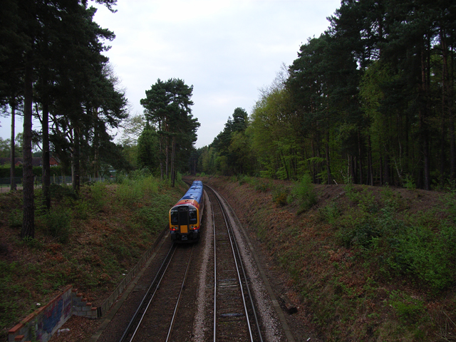 The railway, Ascot. From Boden's Ride.